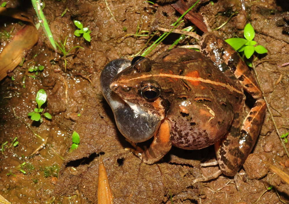 Shot in a small water home in Honey valley coorg